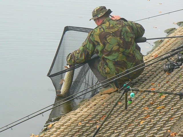 Angler, Coate Water country park, Swindon; The fisherman has just landed a decent sized pike and is about to extract the hook.